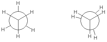 kolbe-schmittreaction